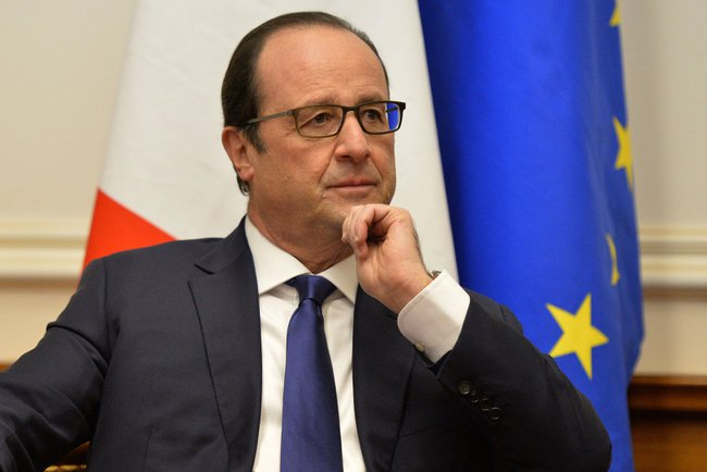 François Hollande, President of France and Vladimir Putin, President of the Russian Federation. Moscow, 6 dec 2014.